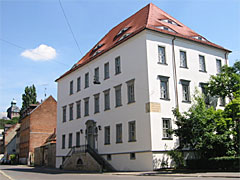 The Novalis House in Weißenfels/Germany. Here died Novalis, the early romantic poet, in 1801. Today also Public Library of Weissenfels